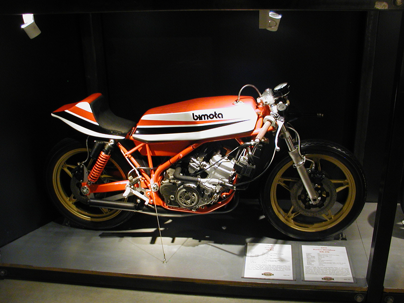 Bimota HDB2 at Barber Motorcycle Museum - Oct 22 2006 (154)More description is here